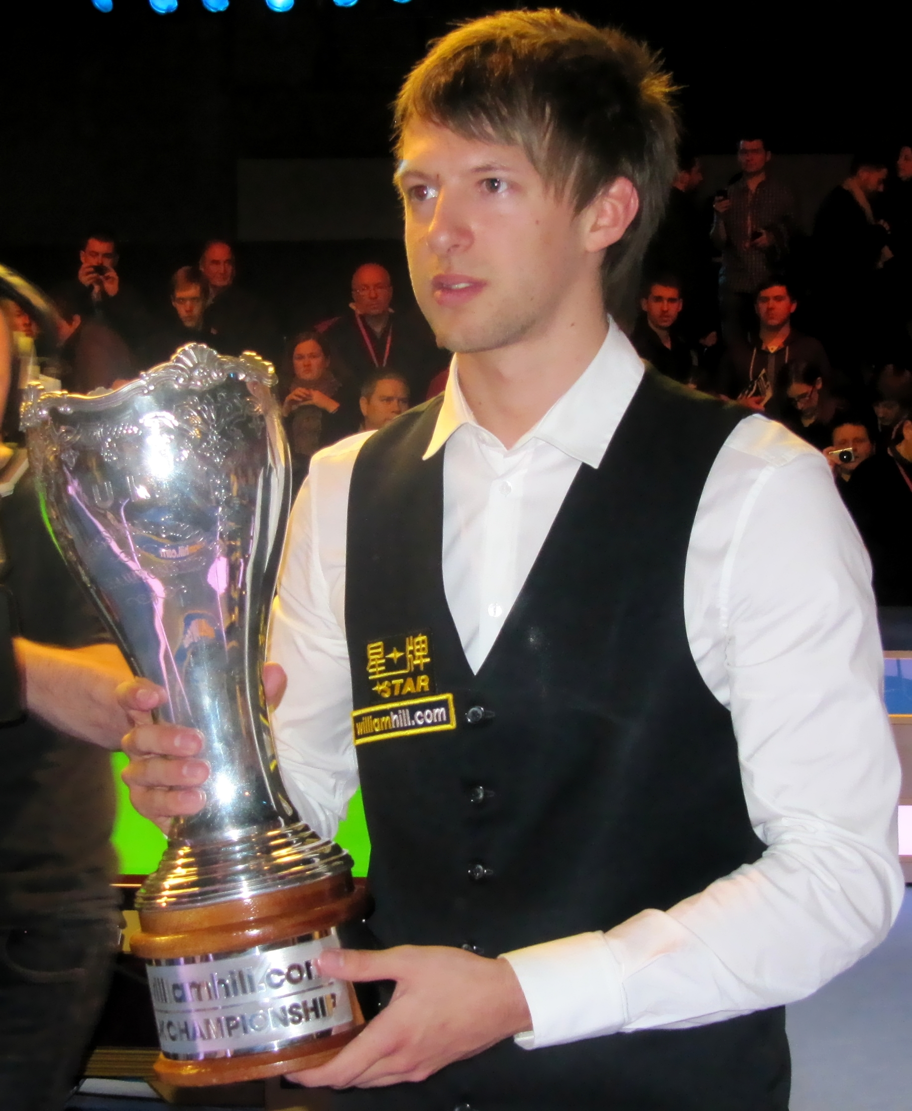 Judd Trump with the 2011 UK Championship Trophy